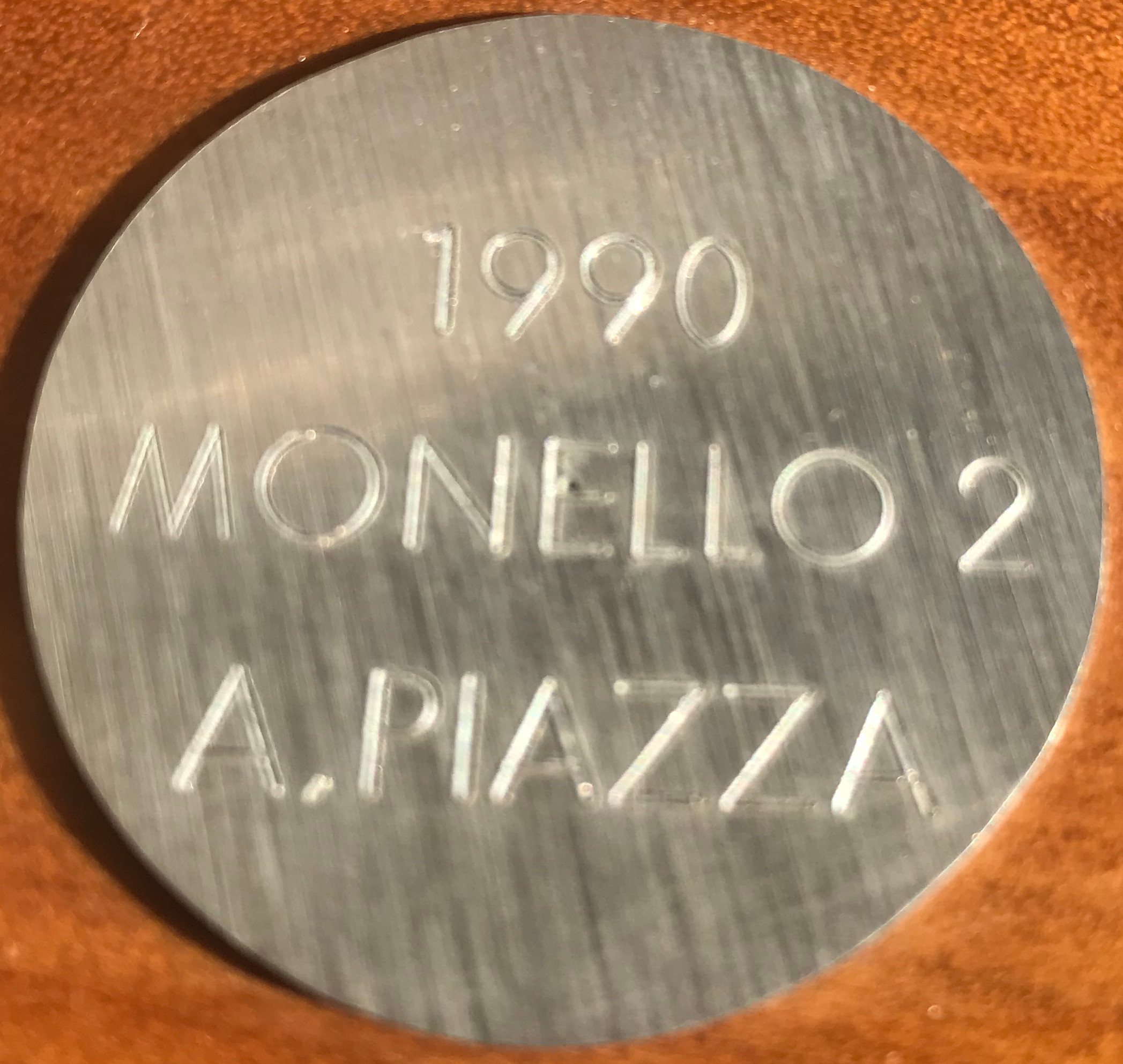 Patch on the Trophy